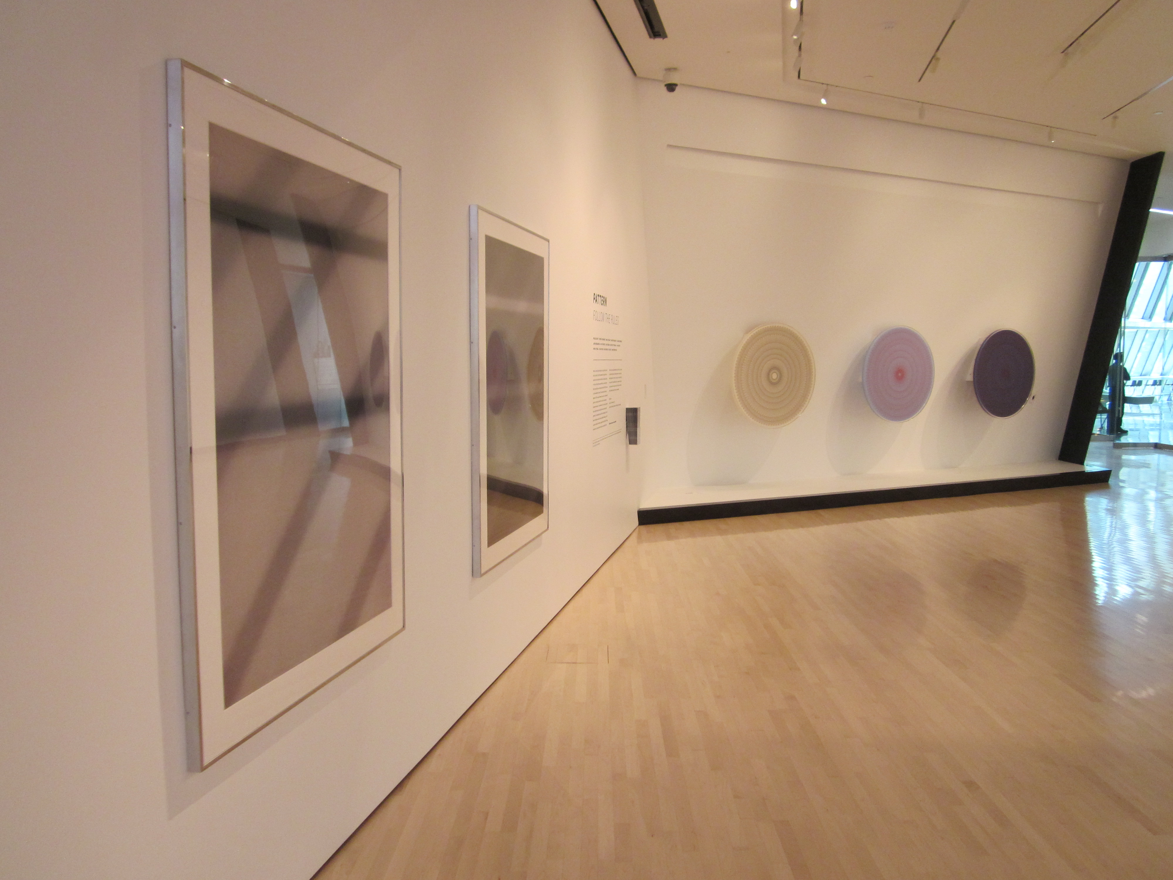 One of the galleries — Eli and Edythe Broad Art Museum, in Michigan.